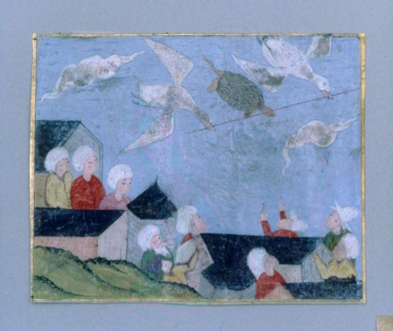 An illustration of the The Tortoise and the Geese story. Opaque watercolour (and gold and silver) on paper. Illustration from the Humayunnama, a 16th-century Ottoman Turkish translation by Ali Chelebi of the Arabic Kalilatun u Damnatun (Kalila va Dimna), which is also known as 'Fables of Bidpai' (or Pilpay), as Anvar-i Suhaili in Persian, and ultimately is derived from the Panchatantra in Sanskrit (India).